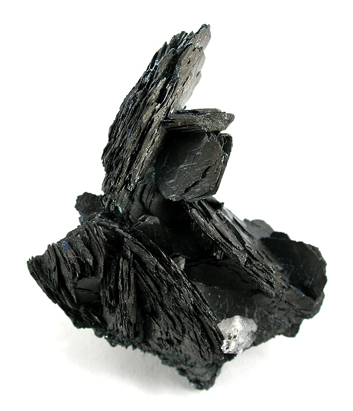 Chalcocite, Covellite Locality: Butte, Butte District, Silver Bow County, Montana, USA (Locality at ) Size: small cabinet, 8.0 x 6.3 x 3.6 cm Chalcocite pseudo. after Covellite An amazingly sculptural cluster of fine, large crystals of covellite that have been completely replaced by lustrous, jet black chalcocite. This is a major Butte specimen of some importance, just for the size alone. However, given the good aesthetics and nearly pristine condition, it is also a fine display quality specimen by any standard aside from the historical significance of the piece for the locale. It was in the Gerald Herfurth collection for 40 years, prior to Ed's purchase of it. Herfurth acquired it in 1958 from Pohndorf, a noted Colorado dealer and collector of the time. Verbally, it was said that this was found in 1883 and this was noted on Herfurth's card label. We know it is old, certainly, but if it really is that old, this is even more a piece of import. Ex. Dr. Edward David, Gerald Herfurth, and August Pohndorf Collections.